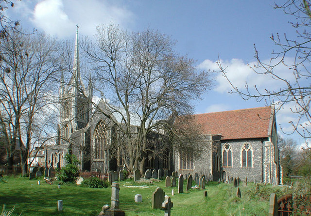 St Mary of Charity parish church, Faversham, Kent, seen from the southeast